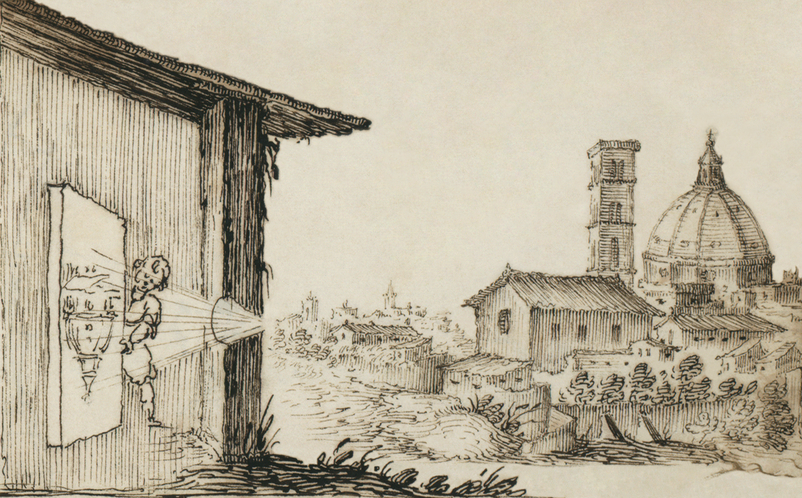 Illustration of camera obscura from "Sketchbook on military art, including geometry, fortifications, artillery, mechanics, and pyrotechnics"